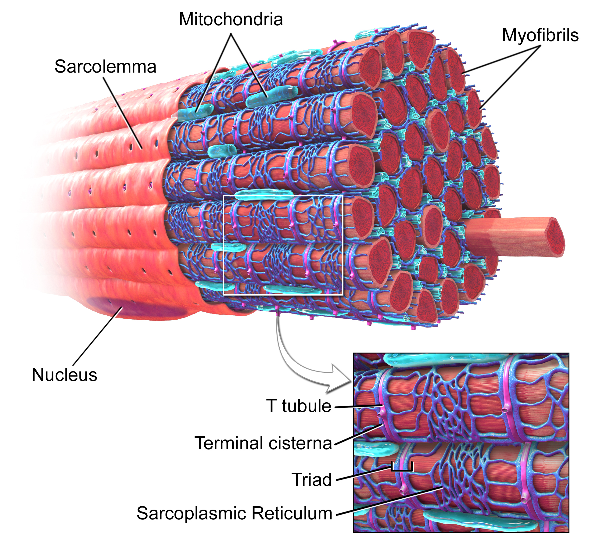 Skeletal Muscle Fiber. See a full animation of this medical topic.